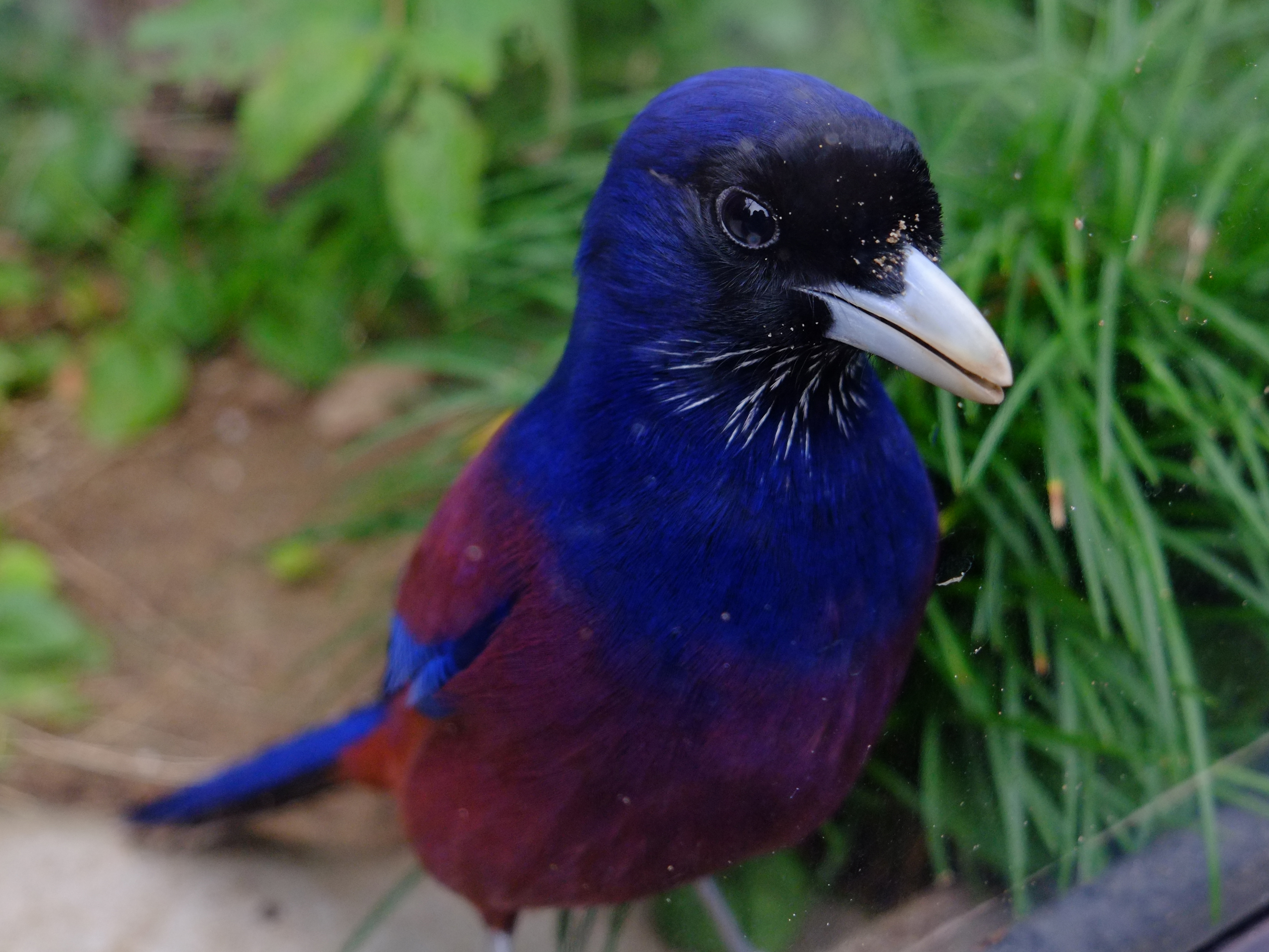 Garrulus lidthi in Ueno Zoo, Tokyo, Japan. This is a retouched picture, which means that it has been digitally altered from its original version. Modifications: Cropping. Modifications made by Batholith.